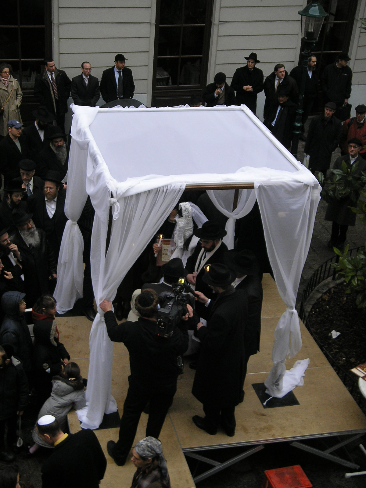 Orthodox Jewish wedding with chupah in Vienna's first district, close to Judengasse.